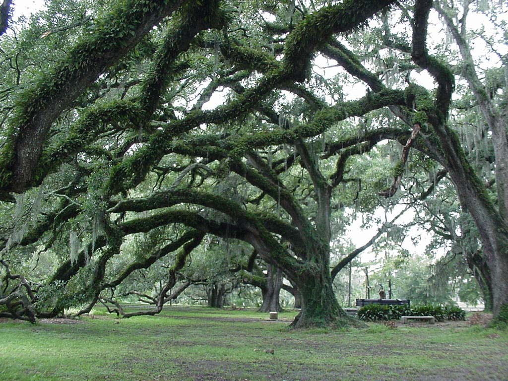 Oak trees in City Park, New Orleans a month before Katrina